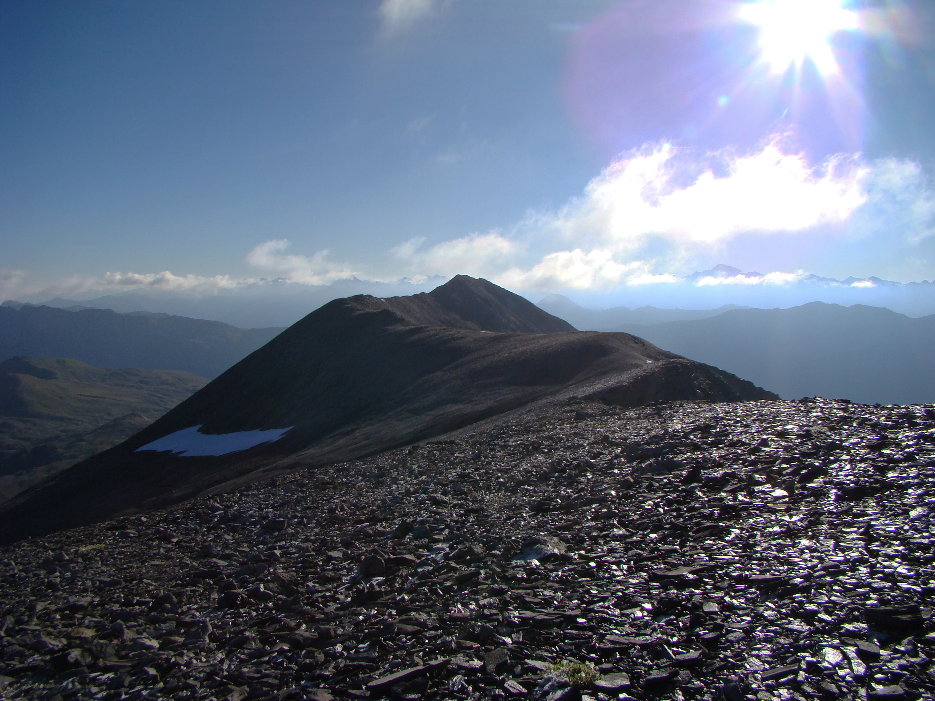 Piz d'Immez, 3026 & 3033m, a mountain in Graubünden.